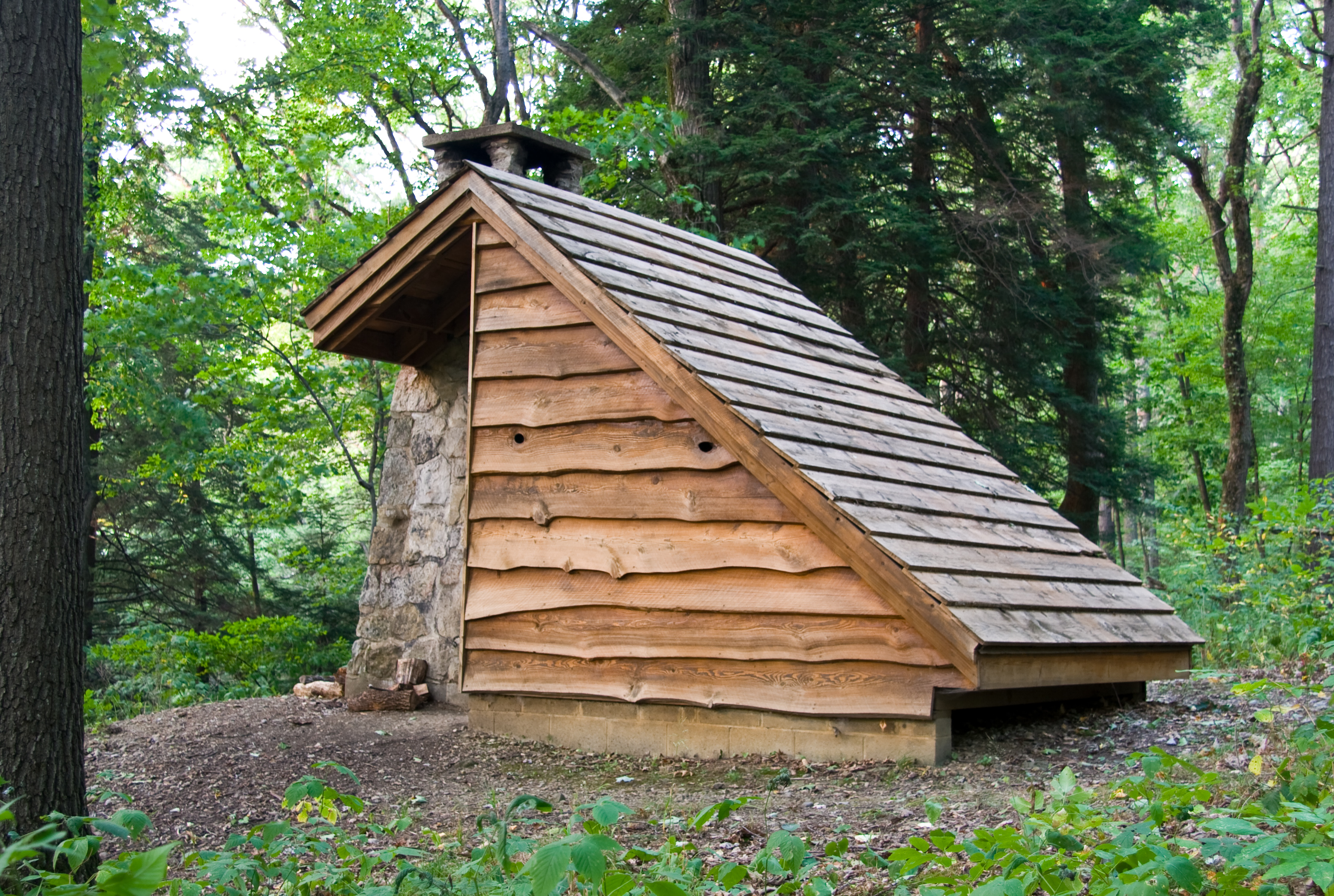 An Adirondack style shelter along the Gerard Hiking Trail at Oil Creek State Park.